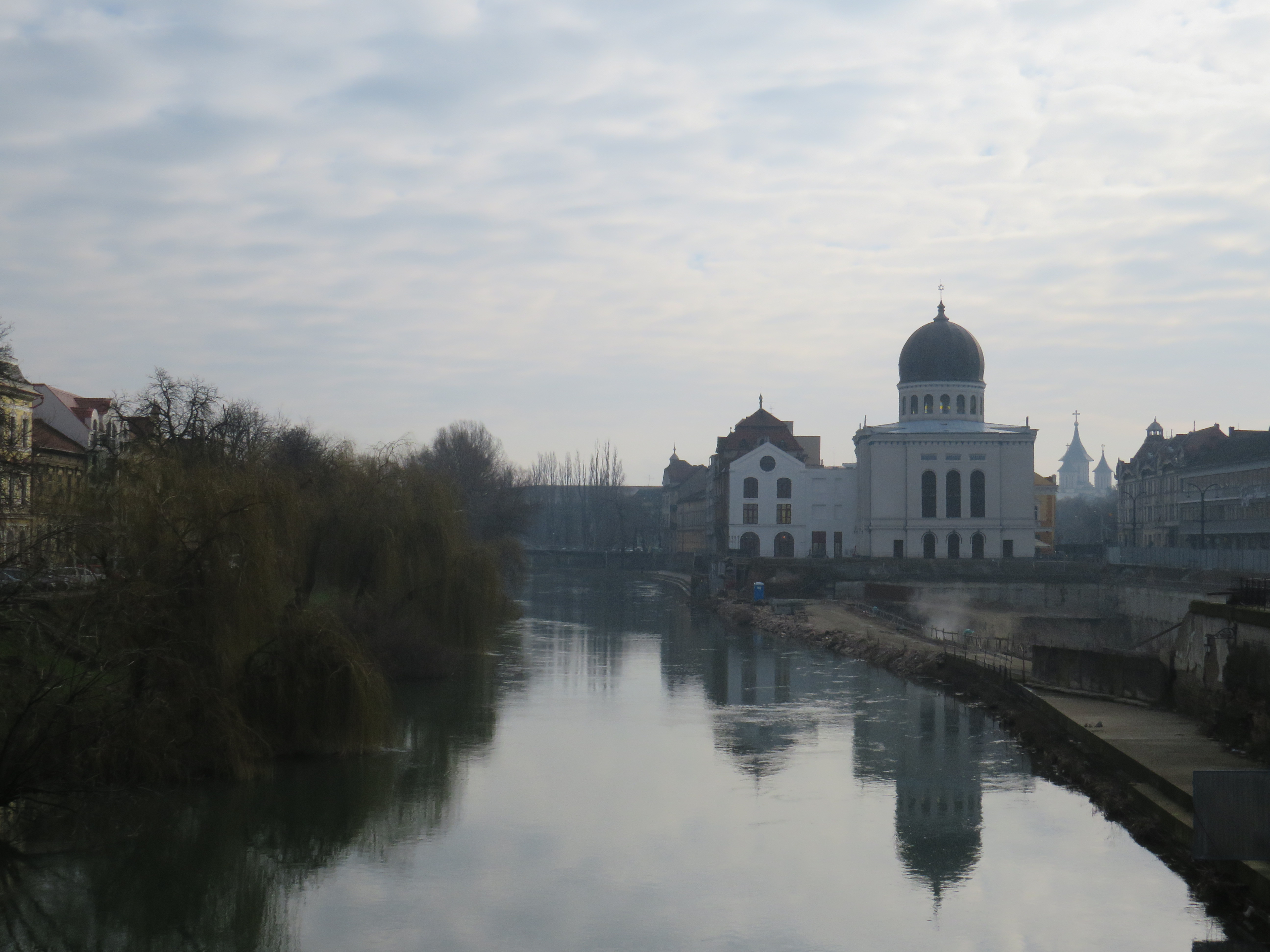 Crisul Repede river in Oradea, Romania